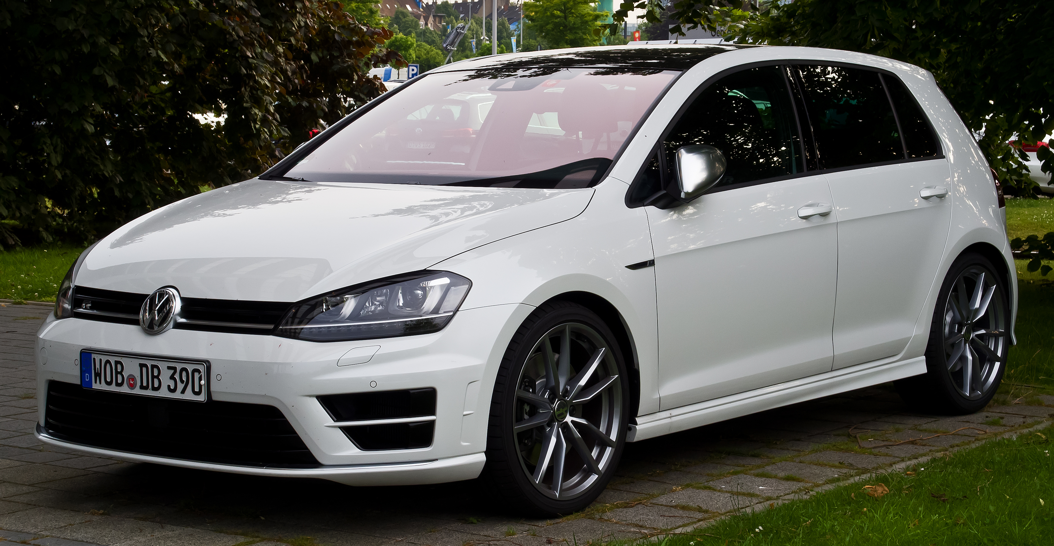 VW Golf R (VII)